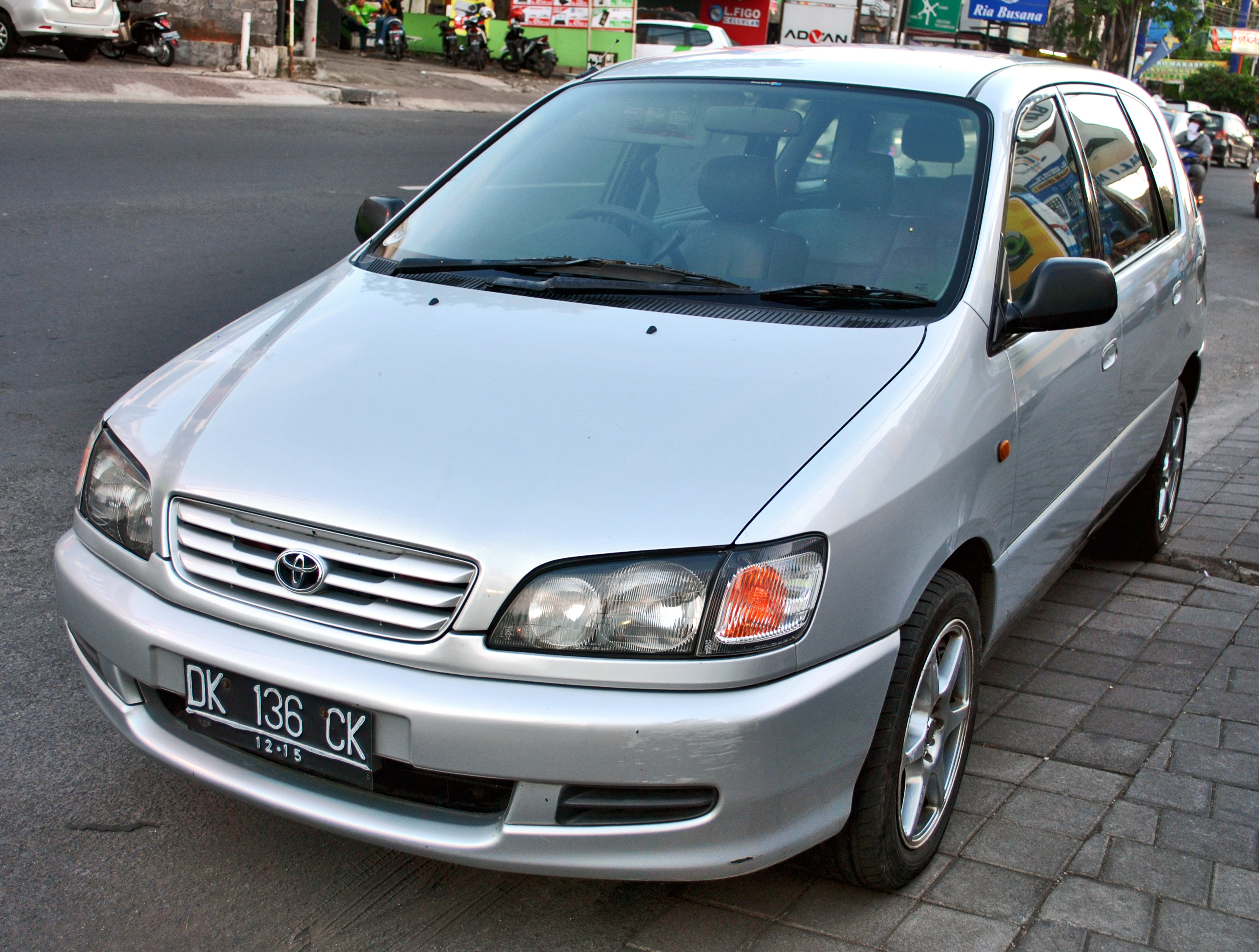 Front view of Toyota Picnic (export name for Ipsum) found at cellphone store parking lot in Denpasar, Bali, Indonesia. Not sold officially at Toyota dealers in Indonesia.